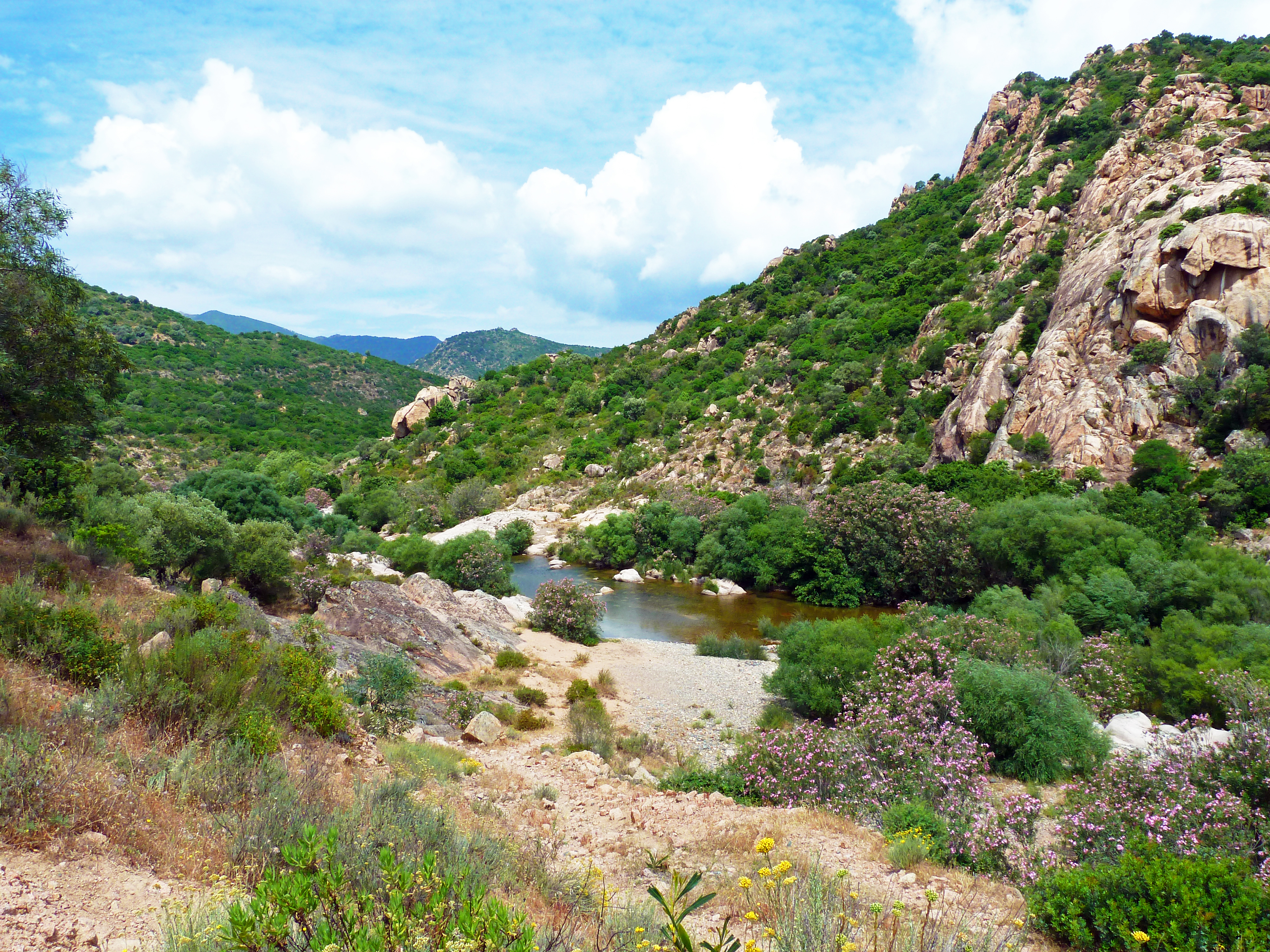 Riu Picocca, river in SE Sardinia